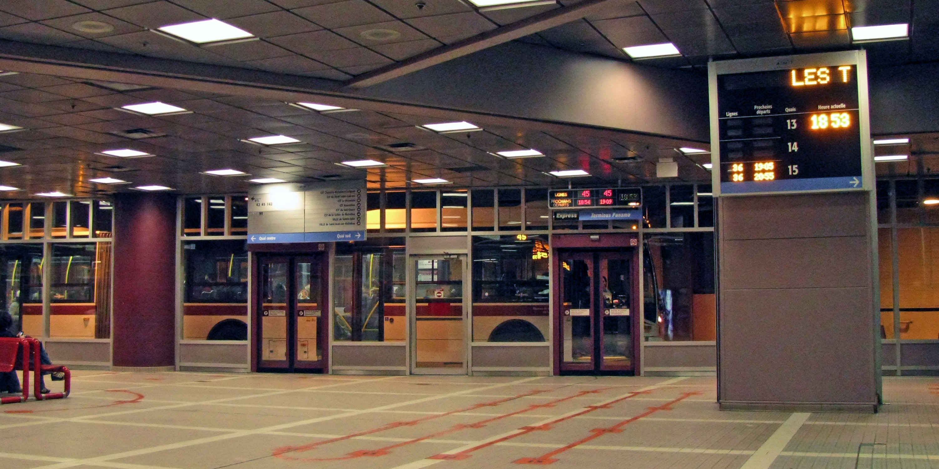 View of the Terminus Centre-Ville